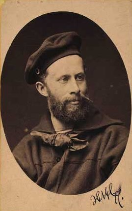 Hans Nikolaj Hansen (1853-1923), Danish painter